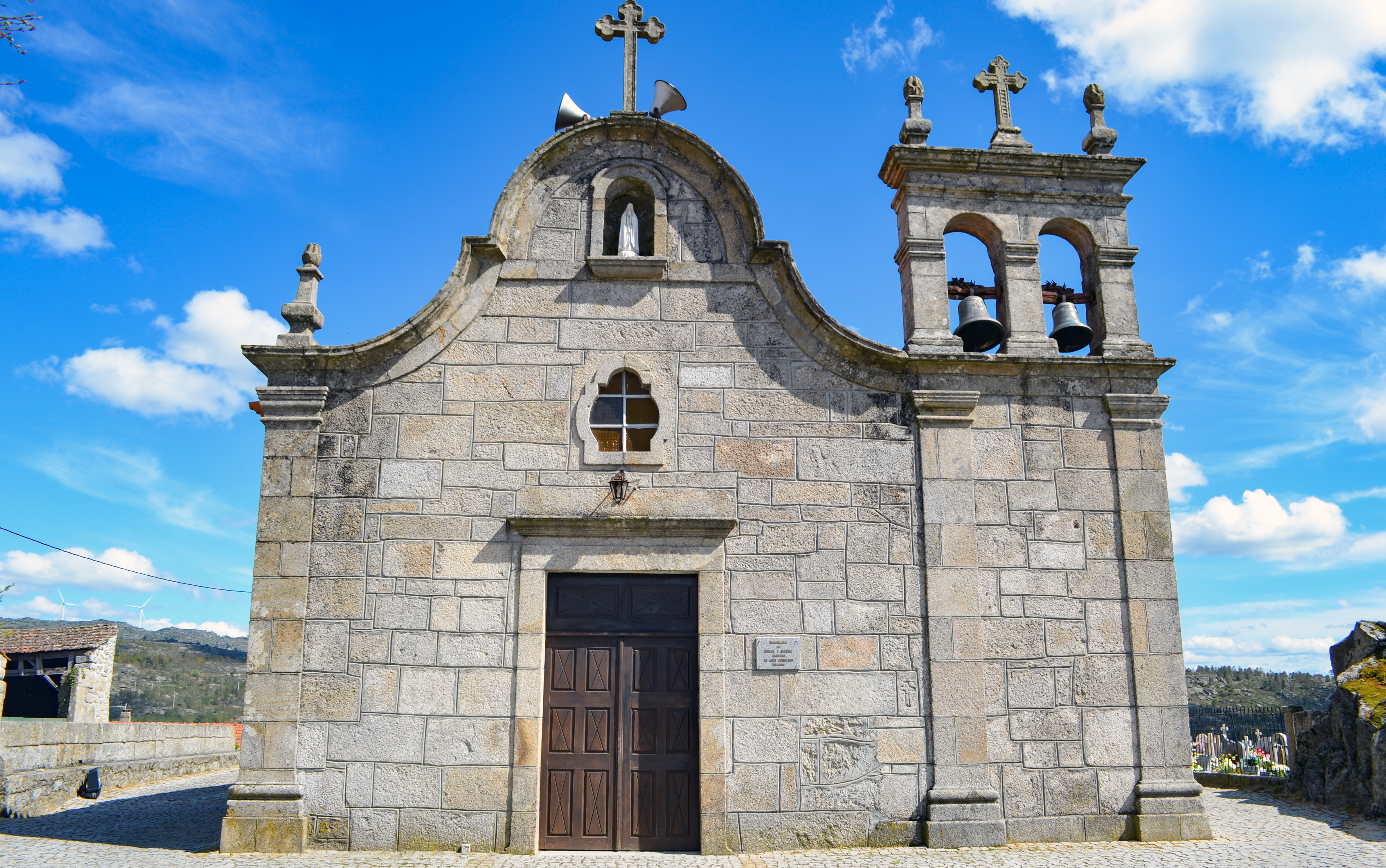 The front side of Carapito Church.